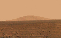 Grissom Hill, seen approximately 7.5 kilometres (4.7 mi) from MER Spirit's landing site, Columbia Memorial Station. Image taken from Spirit's PanCam looking west. Feature was named for Gus Grissom, who perished in the Apollo 1 fire. Other hills in the vicinity were named for fellow Apollo 1 astronauts White and Chaffee.